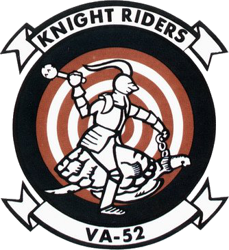 Emblem of the United States Navy Attack Squadron 52 (VA-52) "Knight Riders".